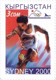 Stamp of Kyrgyzstan